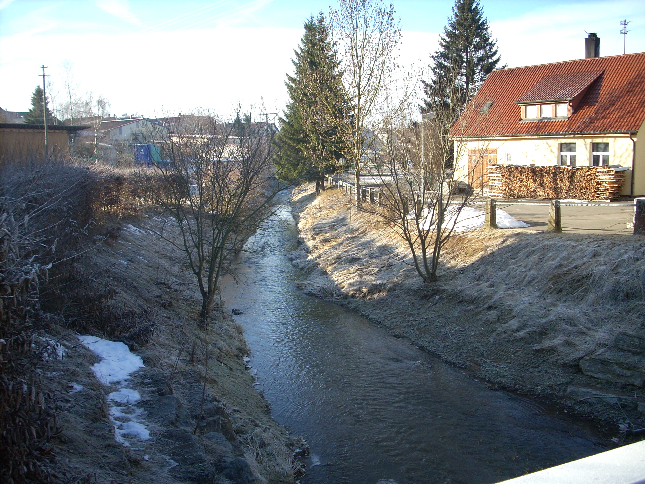 The River Eschach near Dunningen-Seedorf